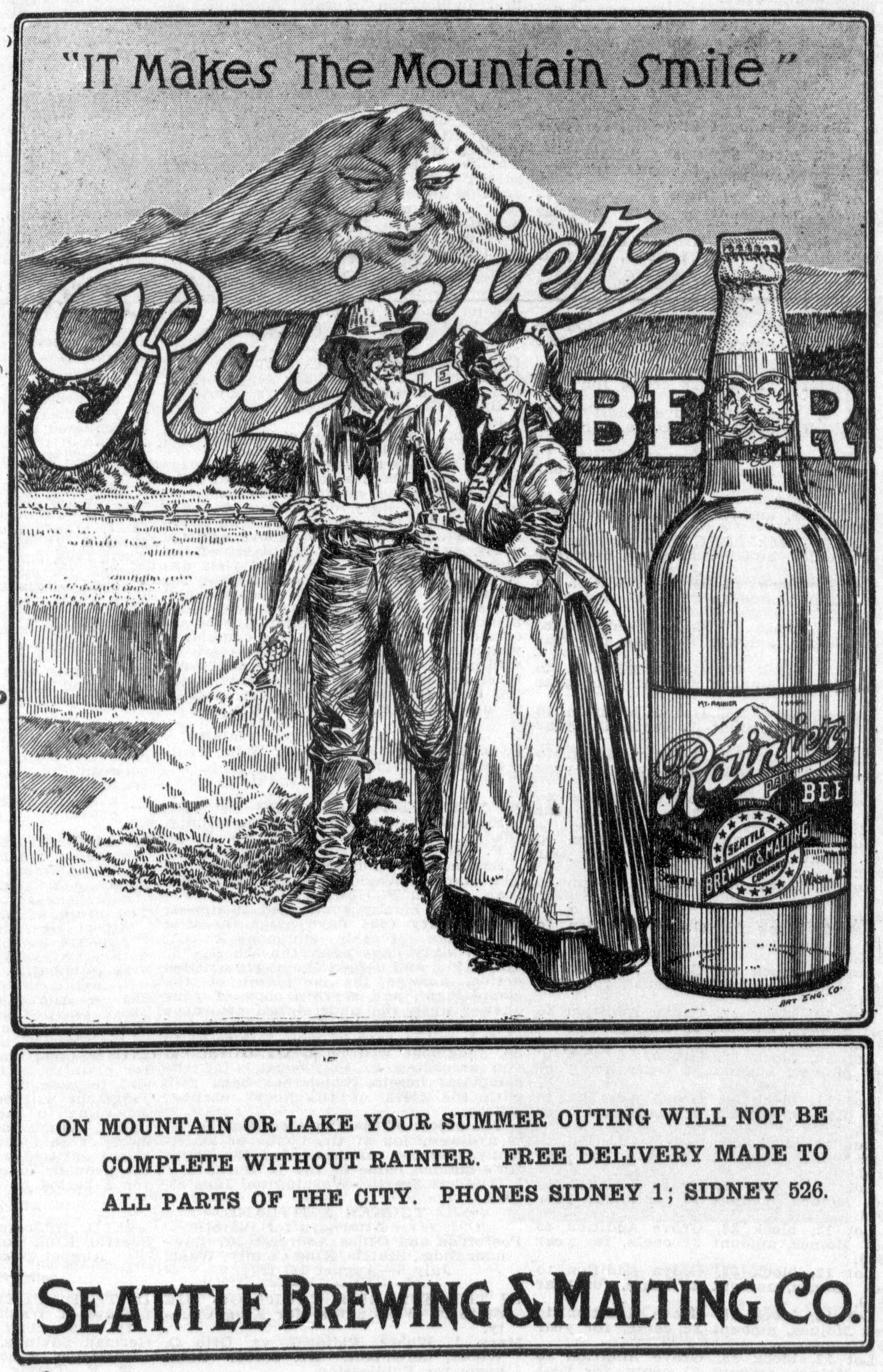 Seattle Brewing and Malting Company, 1912 advert in The Seattle Republican newspaper.